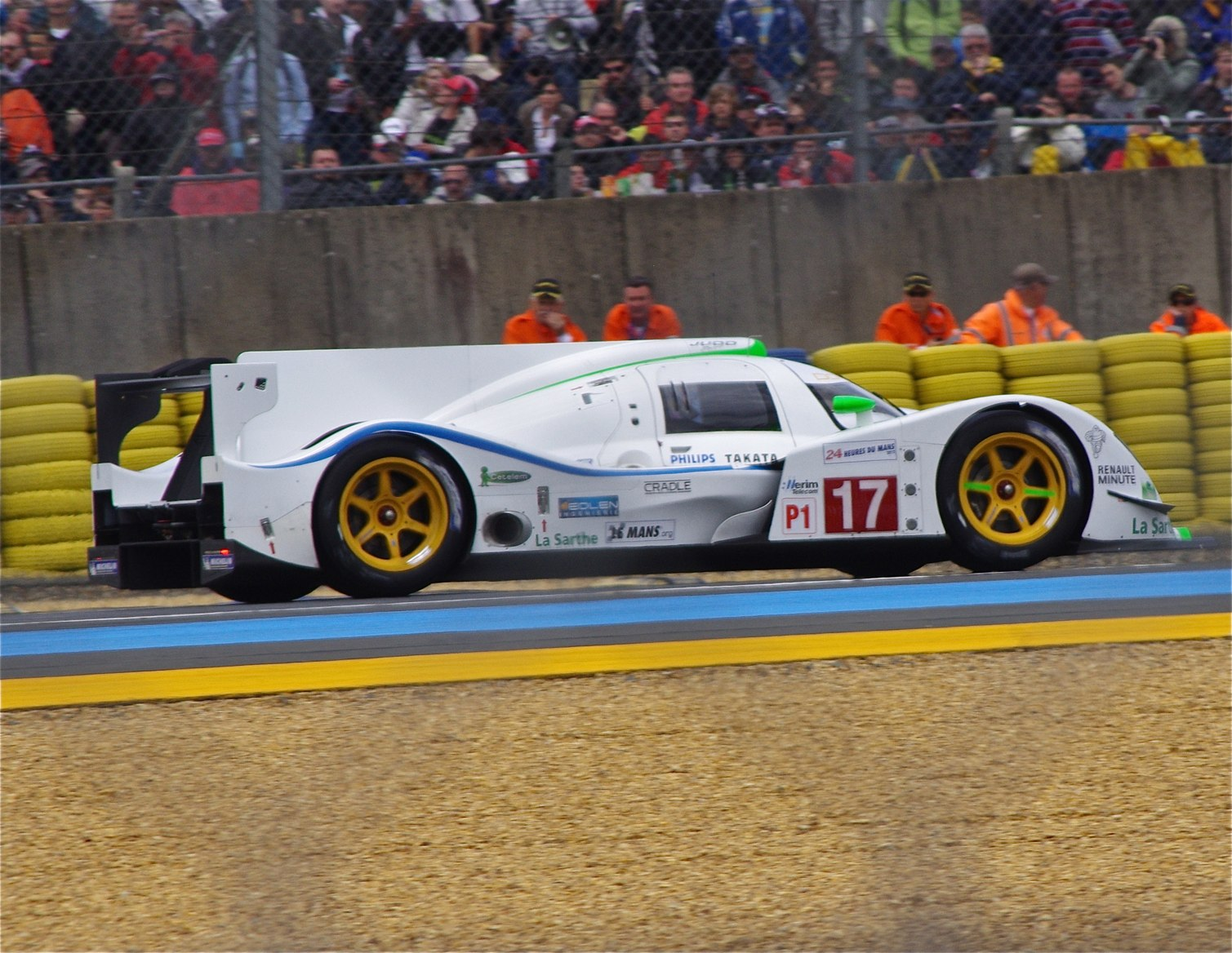 Pescarolo Team's Dome S102.5 Judd Driven by Seji Ara, Sebastien Bourdais and Nicolas Minassian at Le Mans 2012.